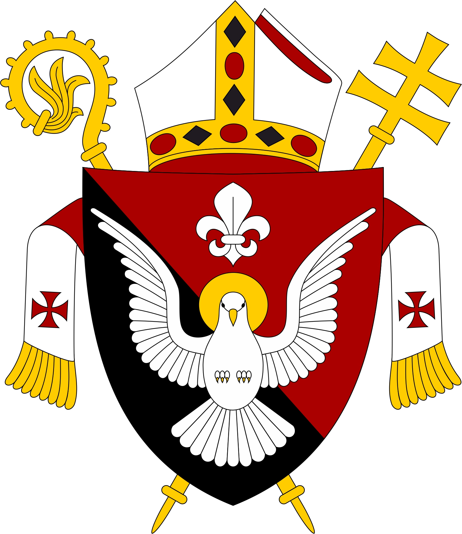 Archdiocese of Madang - Coat of Arms Wappen von Erzbistum Madang